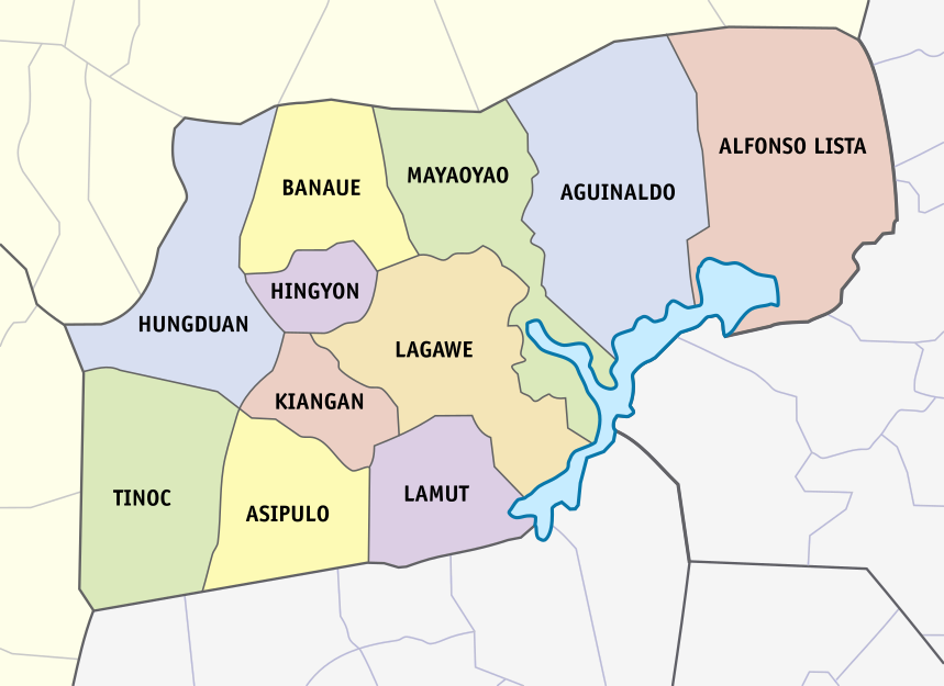 Political map of Ifugao.